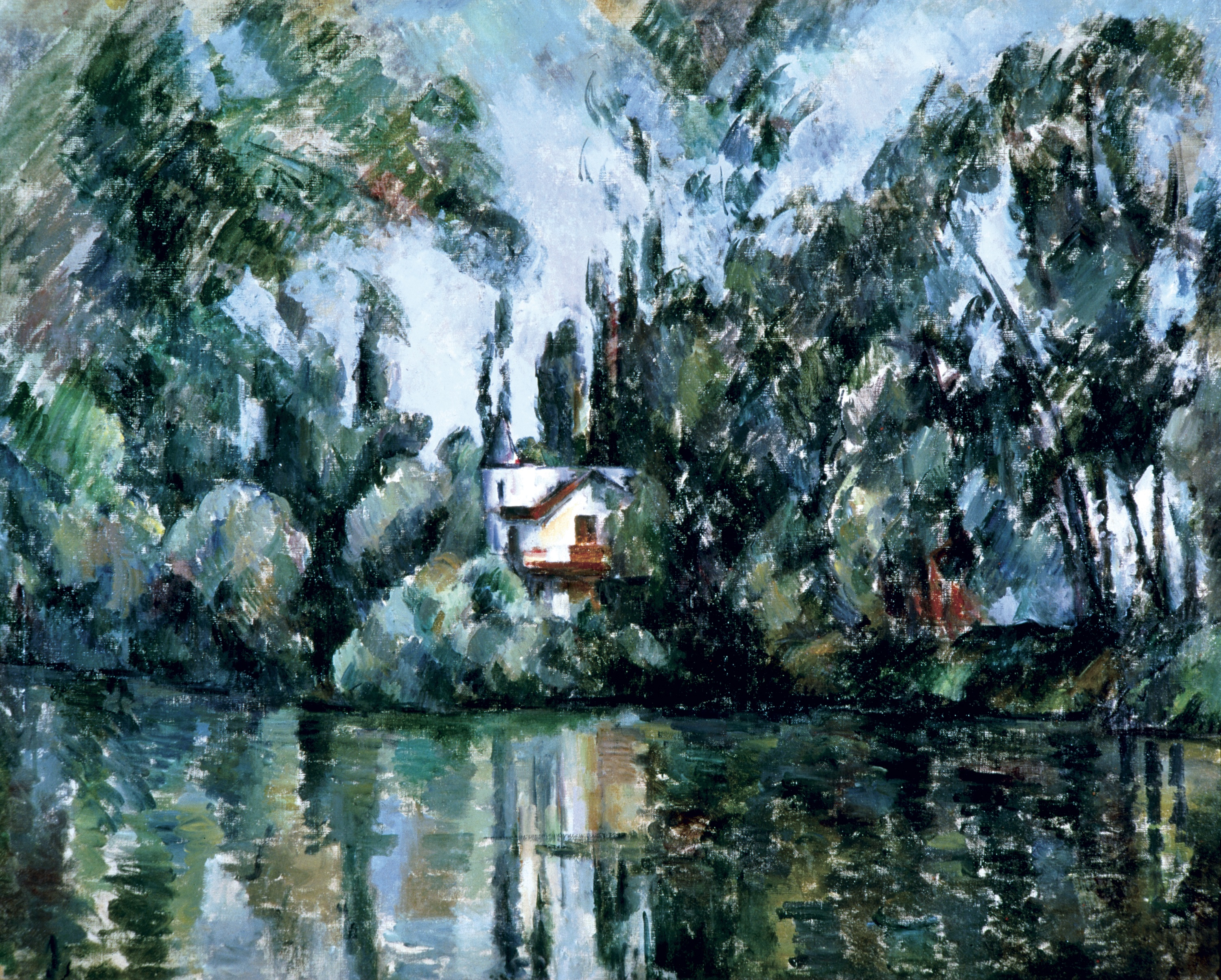 House on the Marne